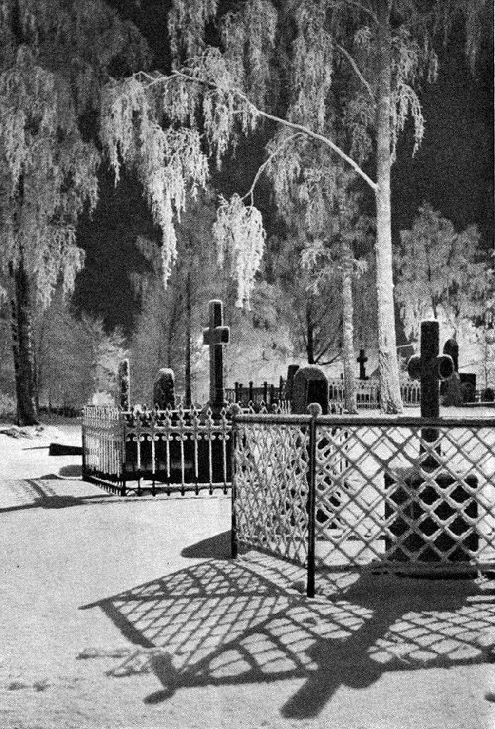 Night in the Cemetery by Olli Jalo Published in the FIAP year book 1956